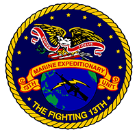 The updated official 13th MEU Logo.